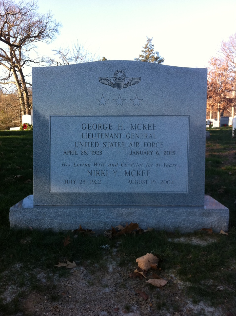 Grave of George H. McKee at Arlington National Cemetery